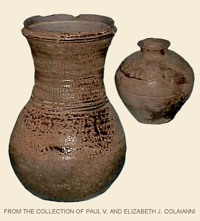 Large and Small Vessels: The large measuring 9-3/4" high and 6-1/4" in diameter. The vessel is imposing and well formed with bulbous base and a neck that tapers and flares at the top. There is no decoration except three bands of hatched design or wave pattern in the bands around the neck leading to a slightly concave neck. There is a moss green glaze on part of the vessel, accidental or intentional is not known, but attractive. Late Silla Dynasty, 10th/11th century. Small vessel measuring 4-7/8" high and 6-1/4" in diameter. A crude celadon vessel with little distinction.